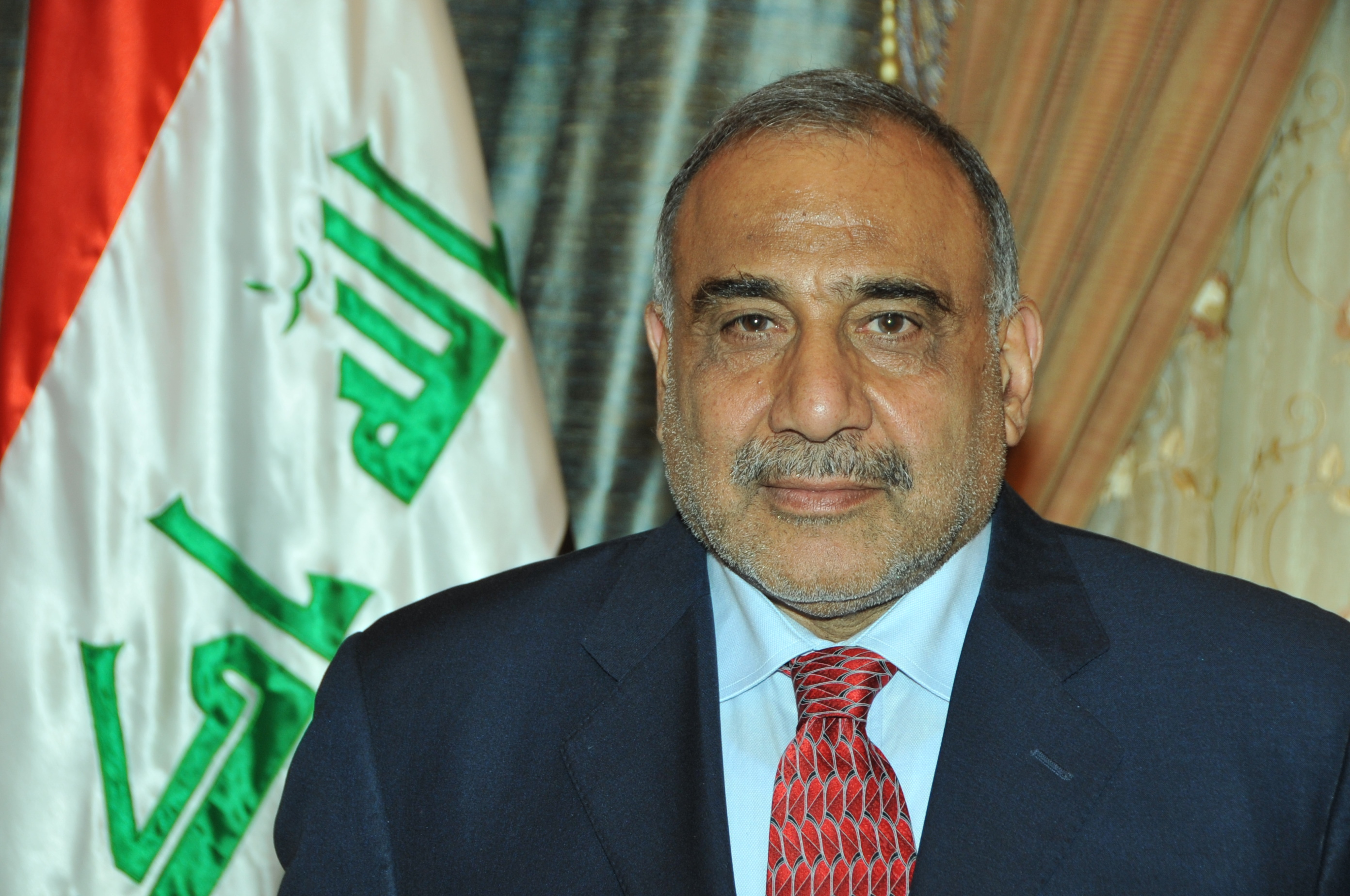 Dr ADIL ABD AL-MAHDI in his presidential palace, in background the flag of his country, Iraq.